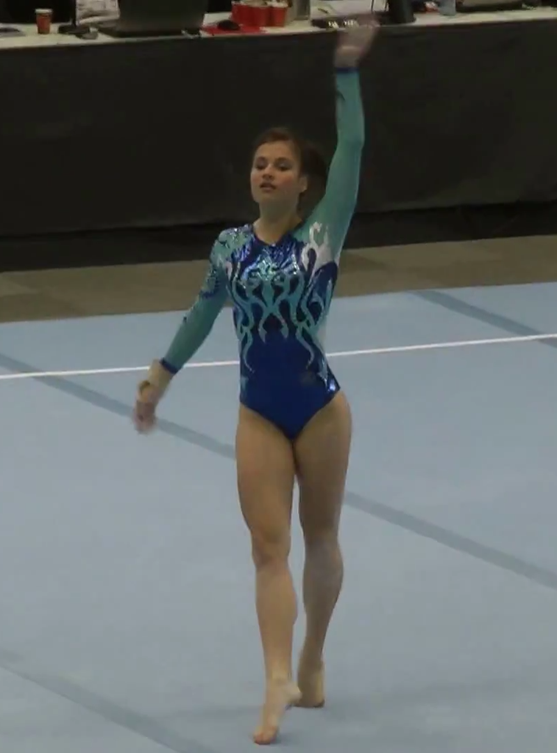 Team Final 17/7/2013 [screenshot from video]